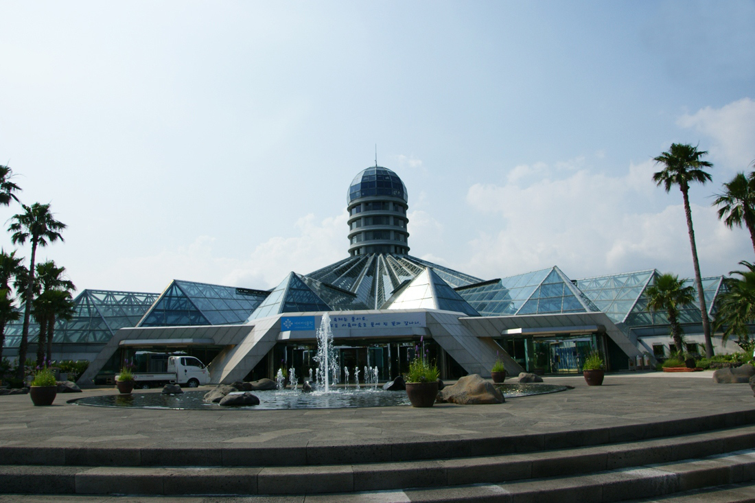 The Yeomiji Botanical Garden - Jeju Island in Korea, first published on 2010-01-05